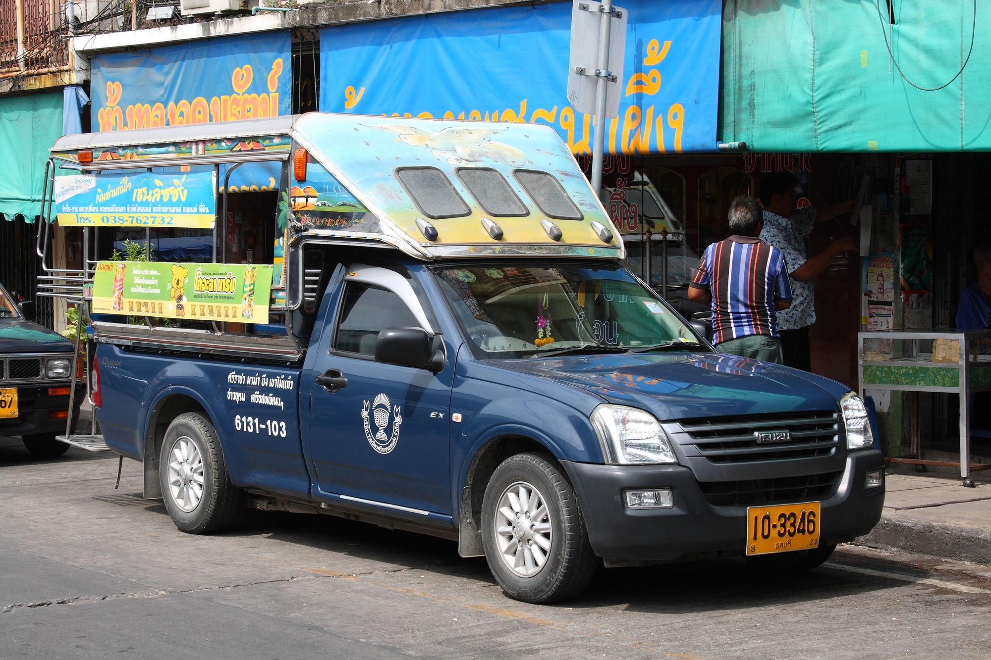 Songthaew in Sri Racha, Chonburi province, Thailand (Isuzu D-Max)